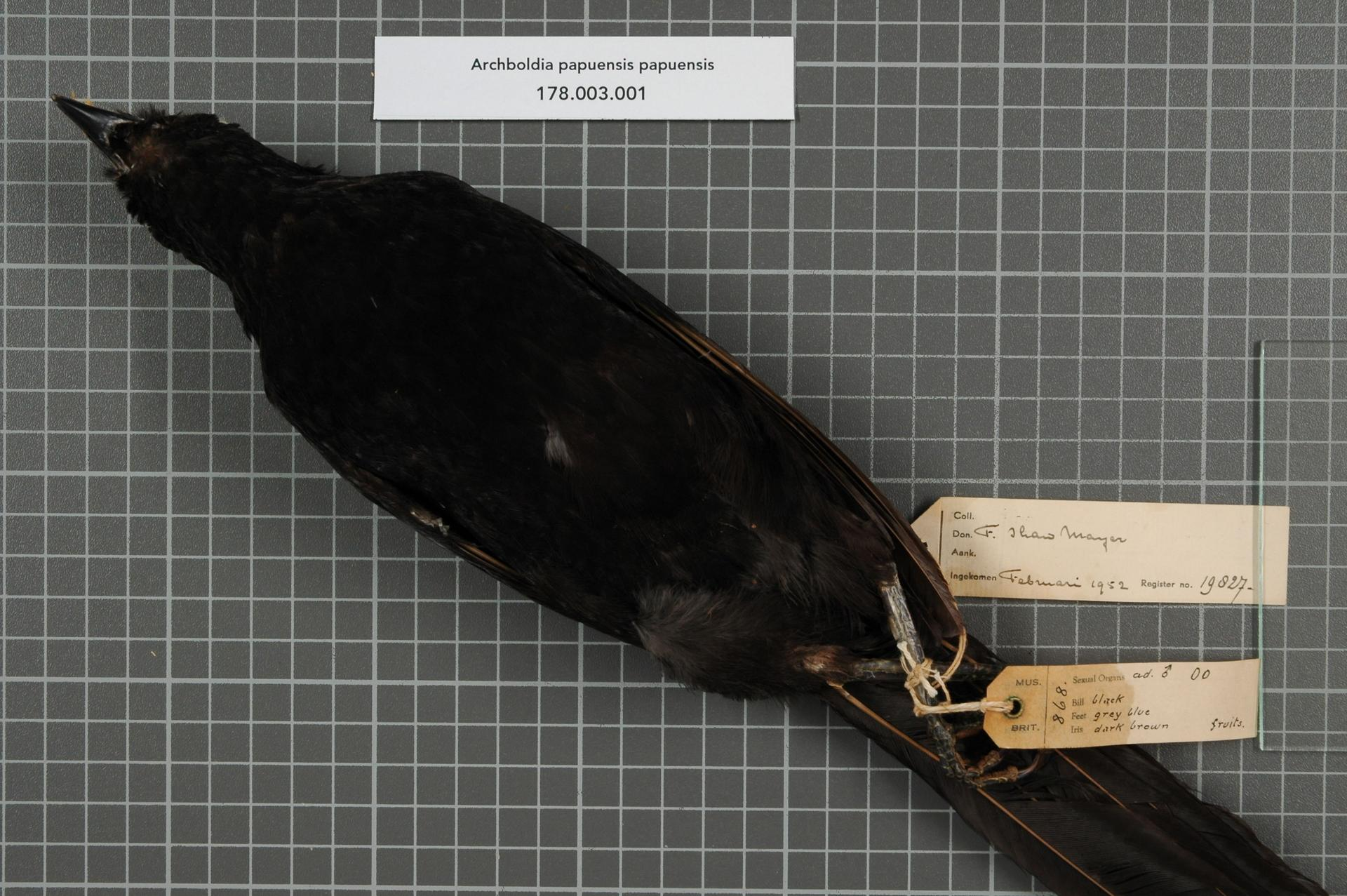 Archboldia papuensis papuensis Rand, 1940